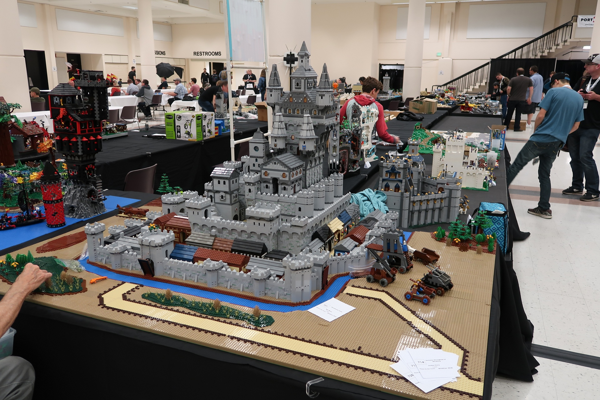 Impressions from BrickCon 2018.